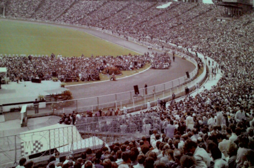 Conventions of Jehovah's Witnesses (1989, Chorzów)